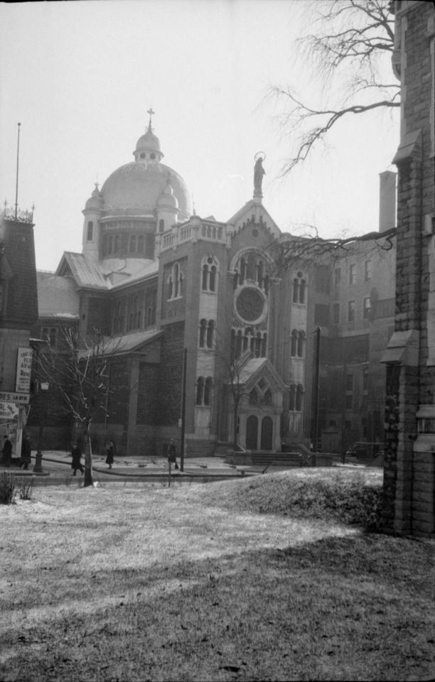 We see the Church of Our Lady of Lourdes, located at the corner of Sainte-Catherine and Notre Dame de Lourdes in the east of Montreal.